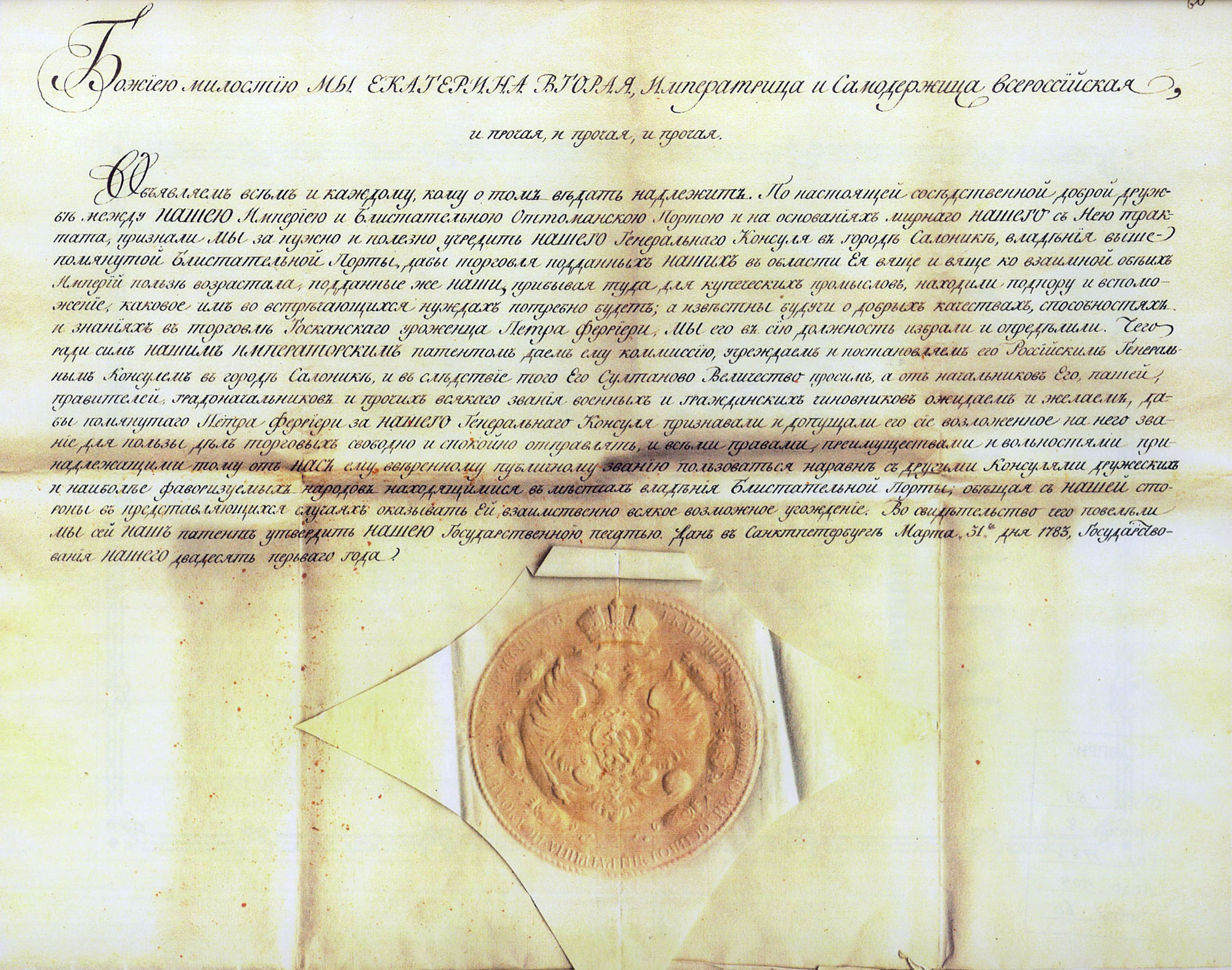 Catherine II' Order for opening Consulate in Salonica, 31 March 1773.